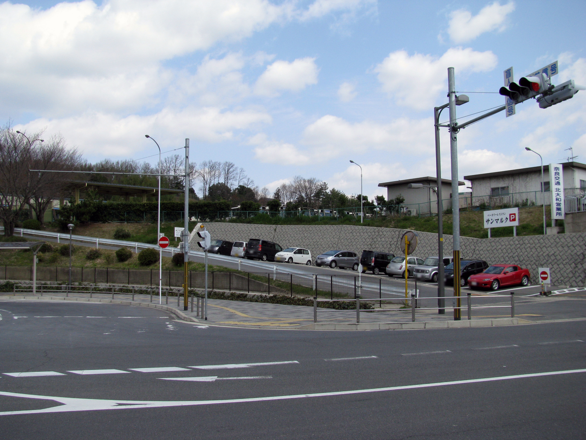 Nara Kotsu Kitayamato Depot